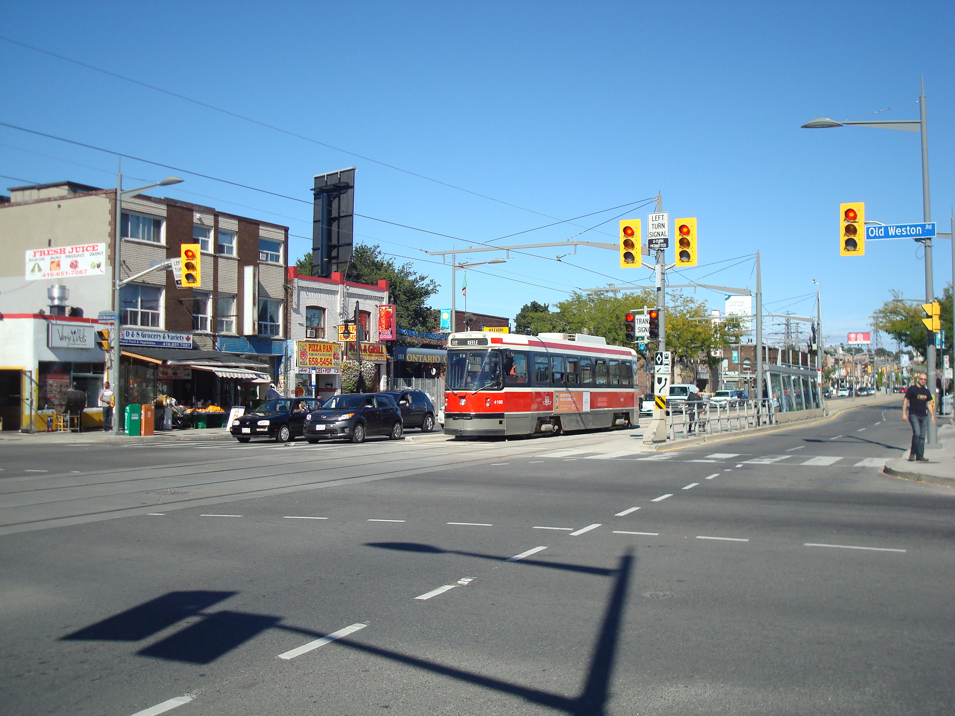 A Toronto Transit Commission Canadian Light Rail Vehicle on the 512 streetcar line stops at Old Weston Road in Toronto, Ontario, Canada on September 10, 2013.